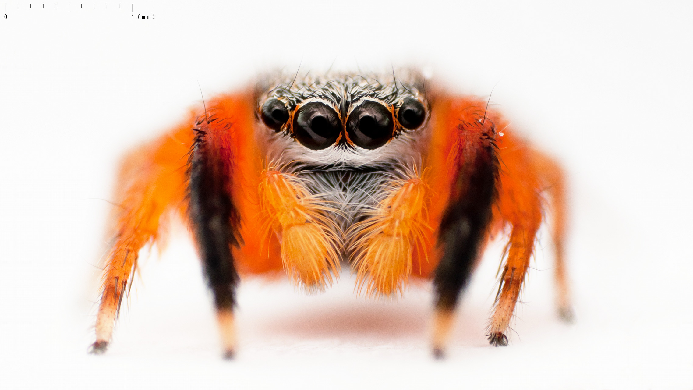 Jumping spider, Euophrys kataokai